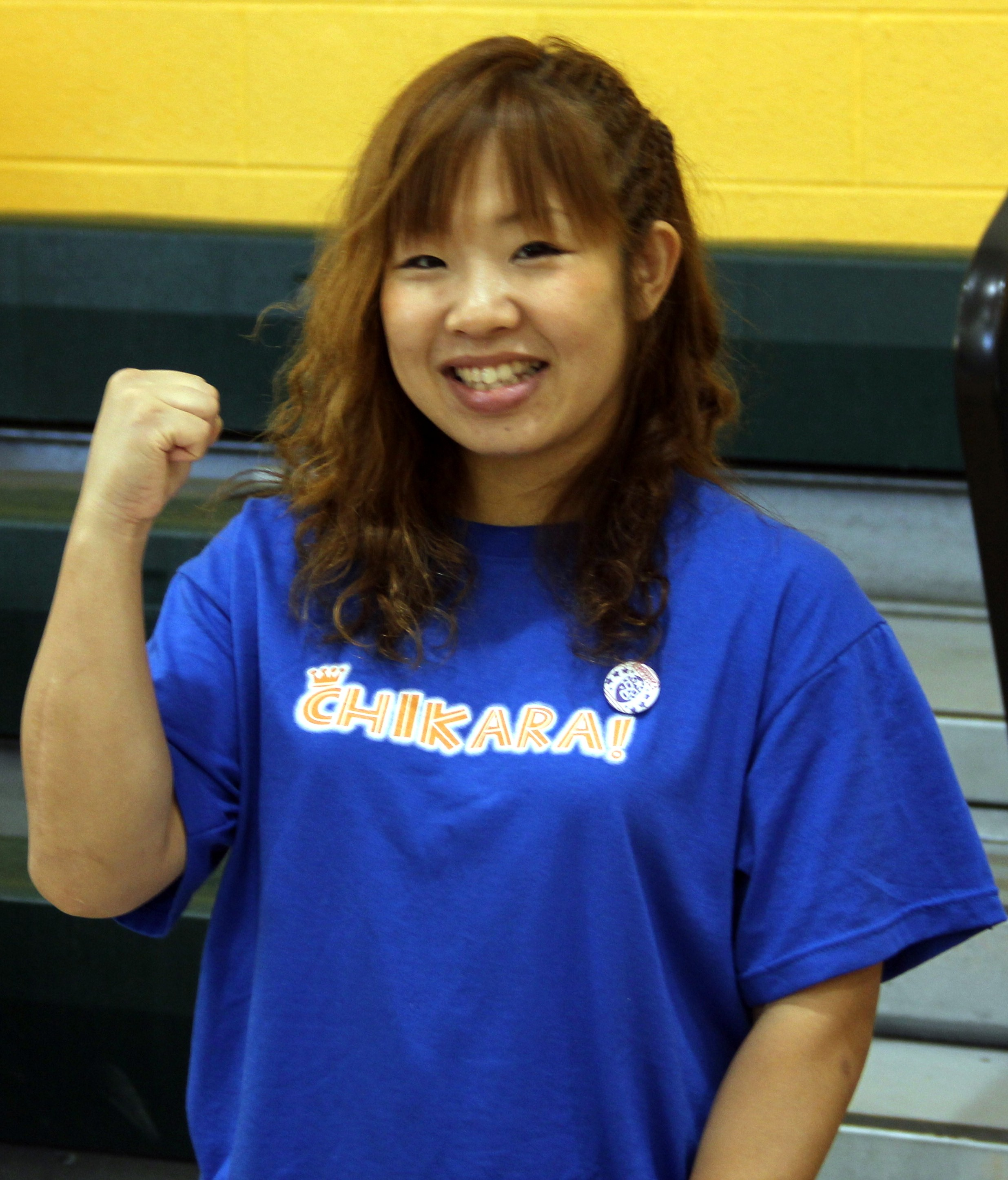 Professional wrestler Kaori Yoneyama at Chikara King of Trios 2012 Fan Conclave.